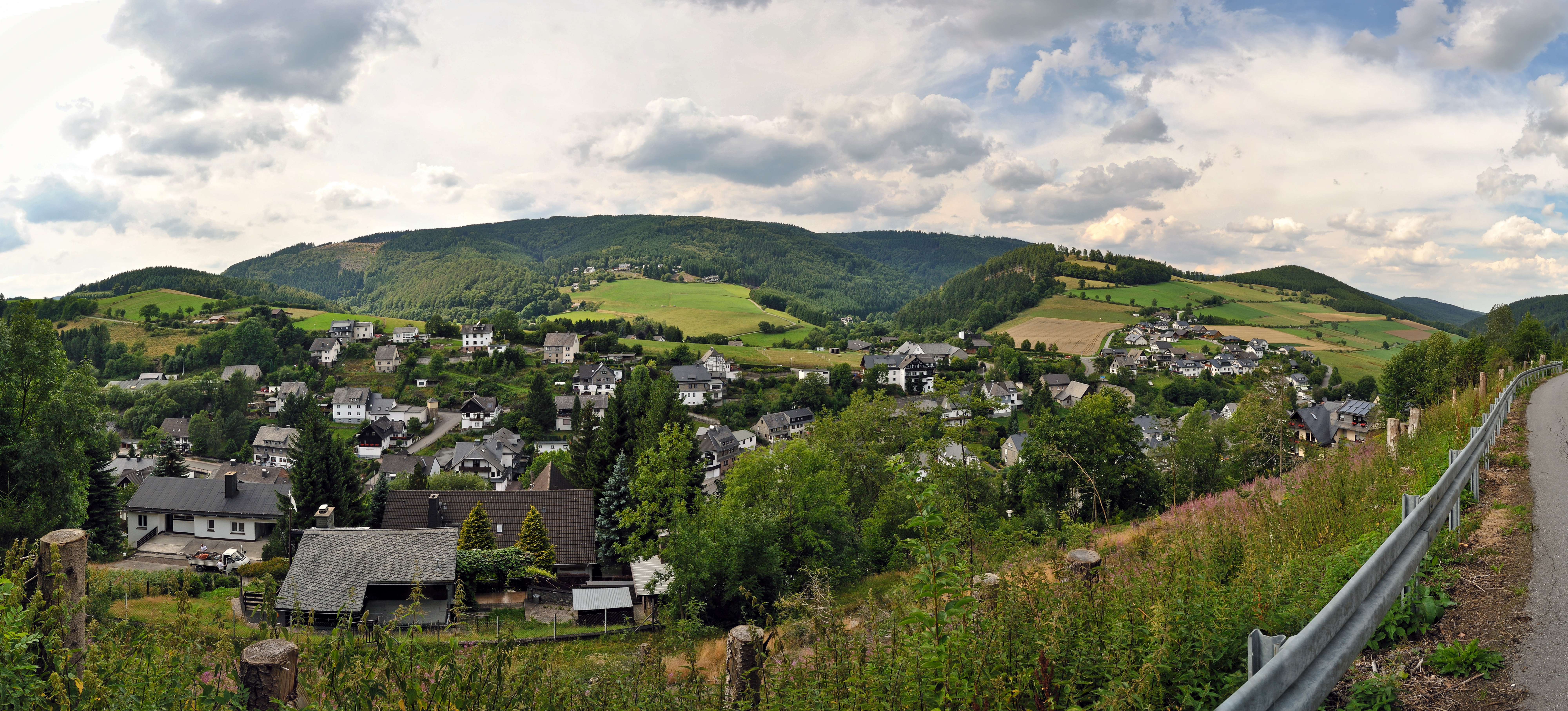 Panorama view about the district Schwalefeld of the community Willingen, Hesse, Germany Concerning this file, a RAW file still exists. This image was created with Hugin.